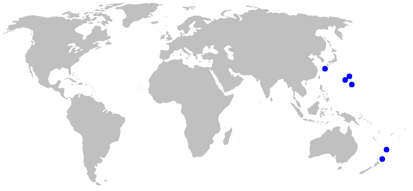 Known localities for Symphurus thermophilus, from Munroe and Hashimoto (2008).